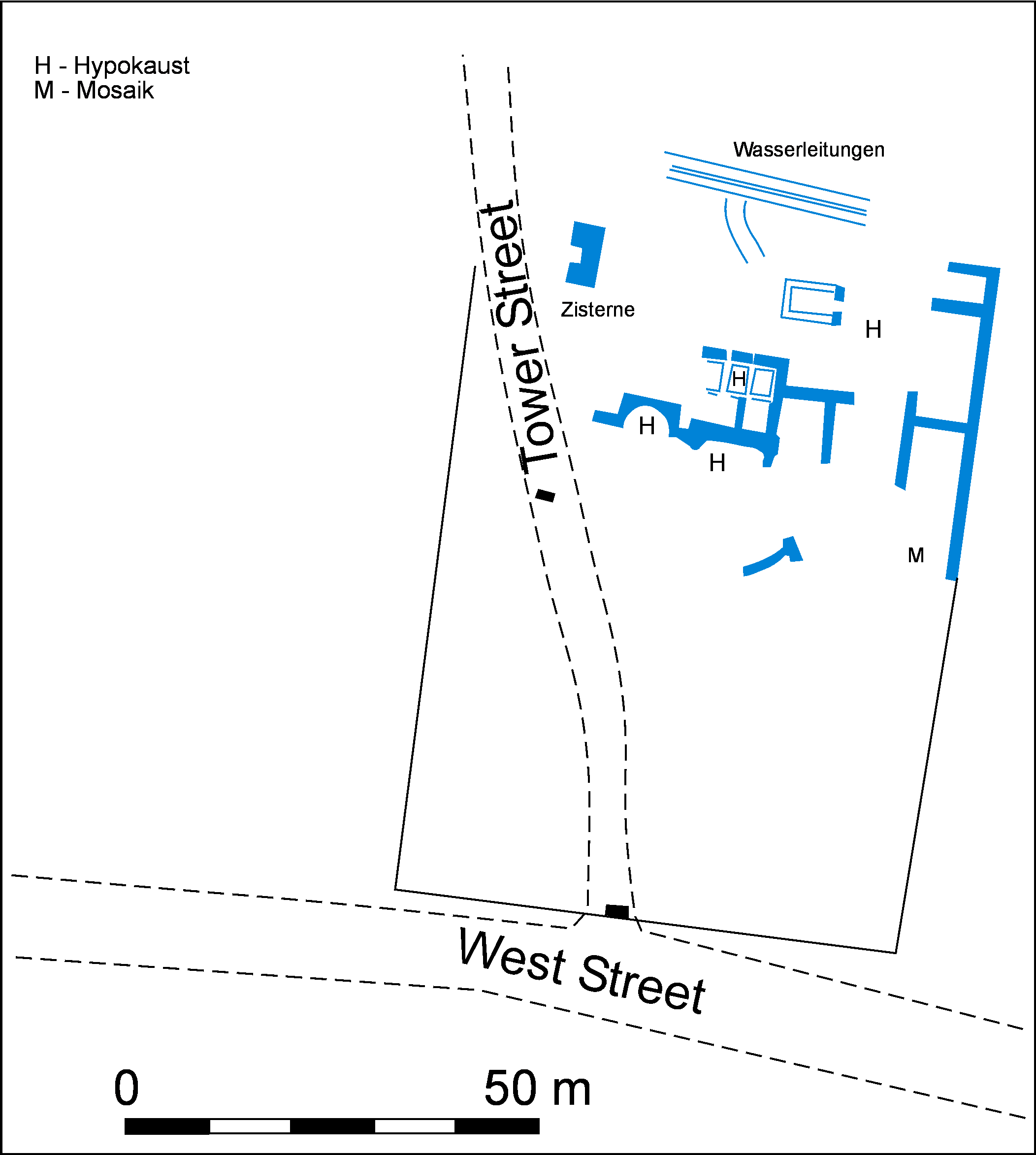 Roman thermes in Chichester, plan of the remains